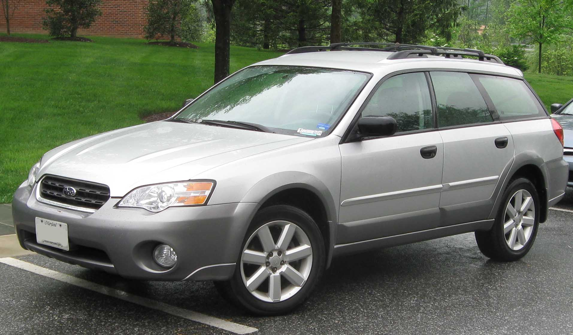 2005-2007 Subaru Outback 2.5 i photographed in College Park, Maryland, USA.